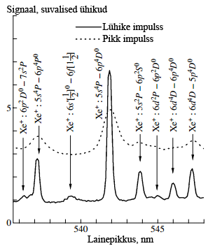 LIBS sample spectrum